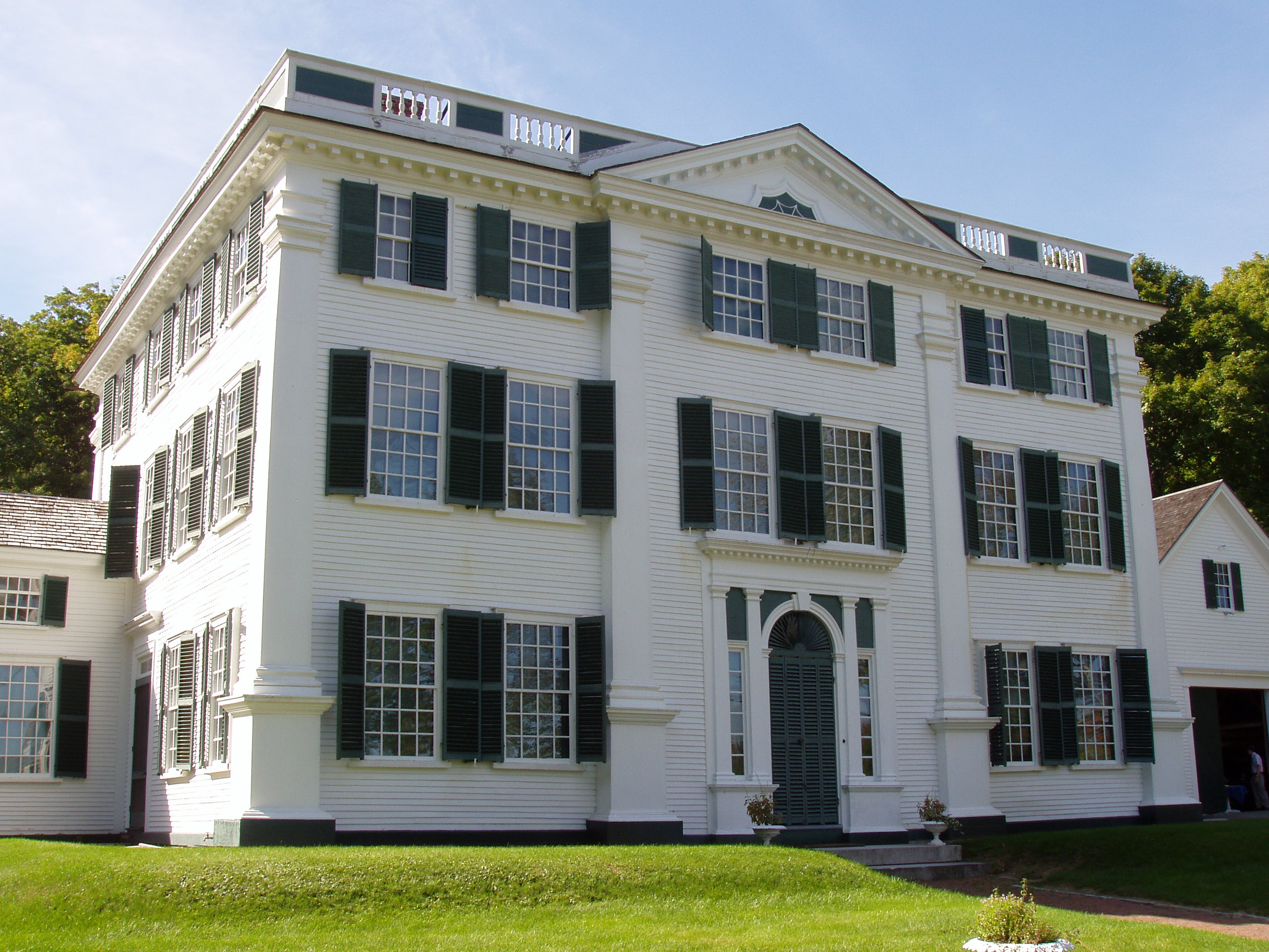 Barrett House - New Ipswich, New Hampshire. Front view. Photograph taken by me, October 2005.